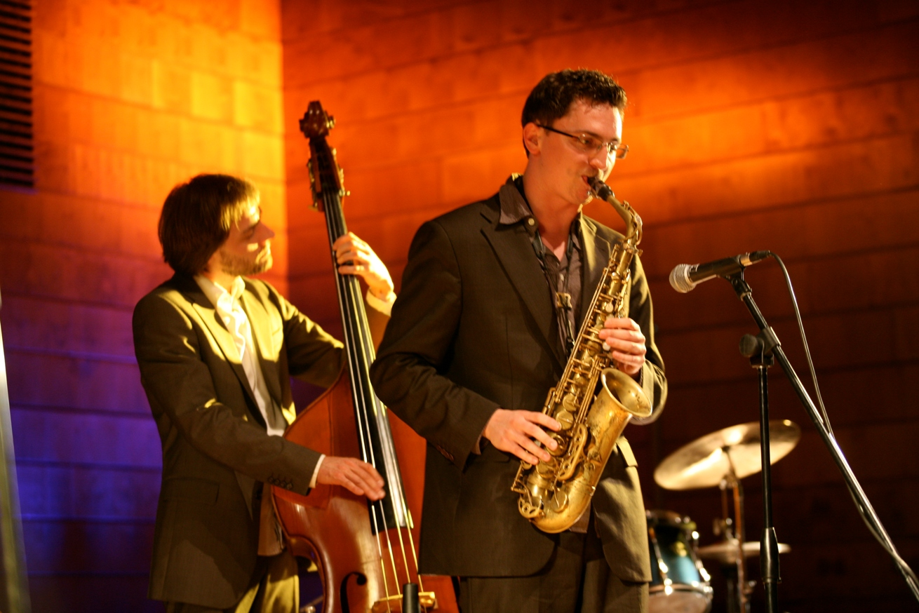 Band performing at EUROPAfest 2010